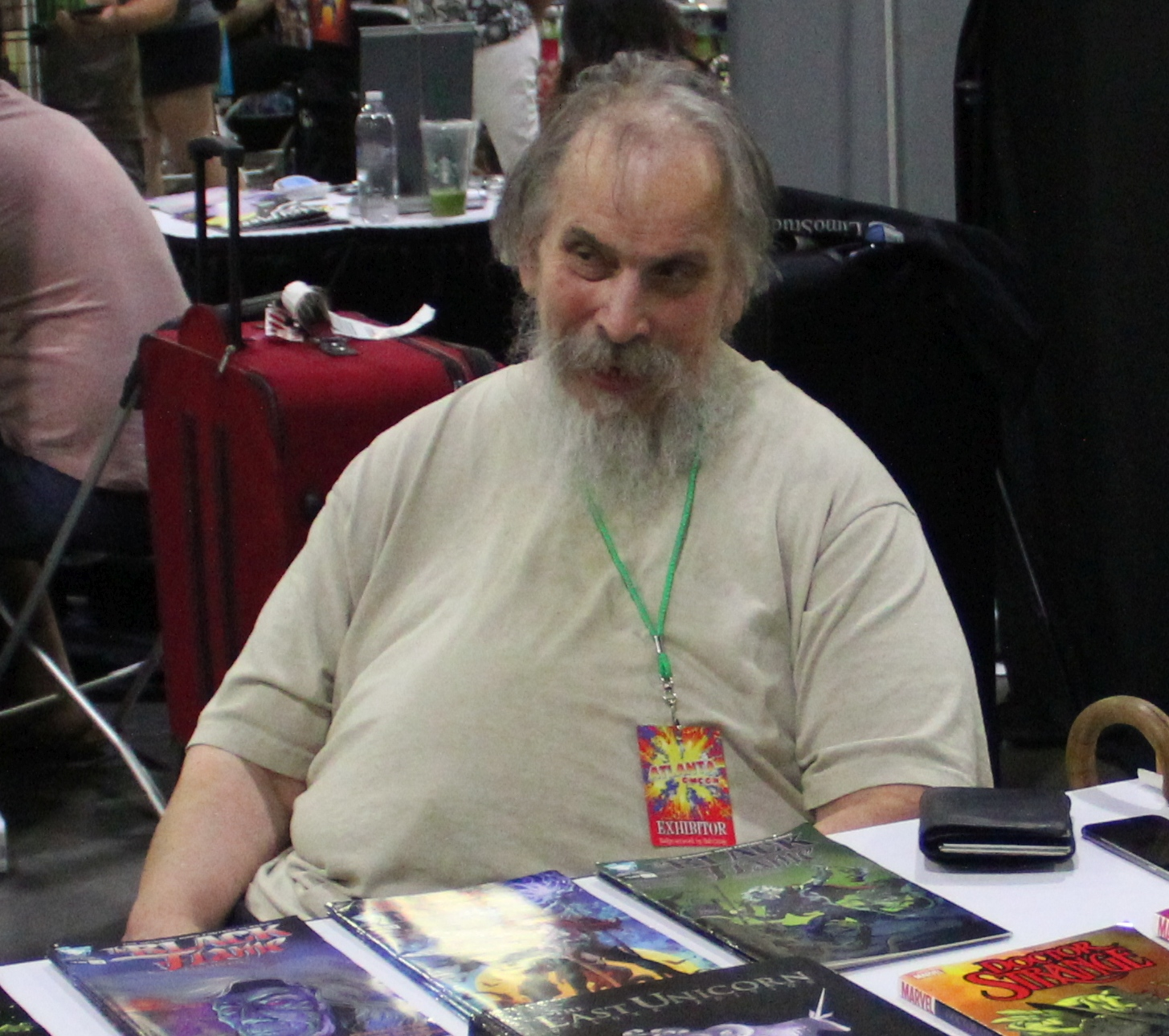 Peter B. Gillis at Atlanta Comic Con, 2018